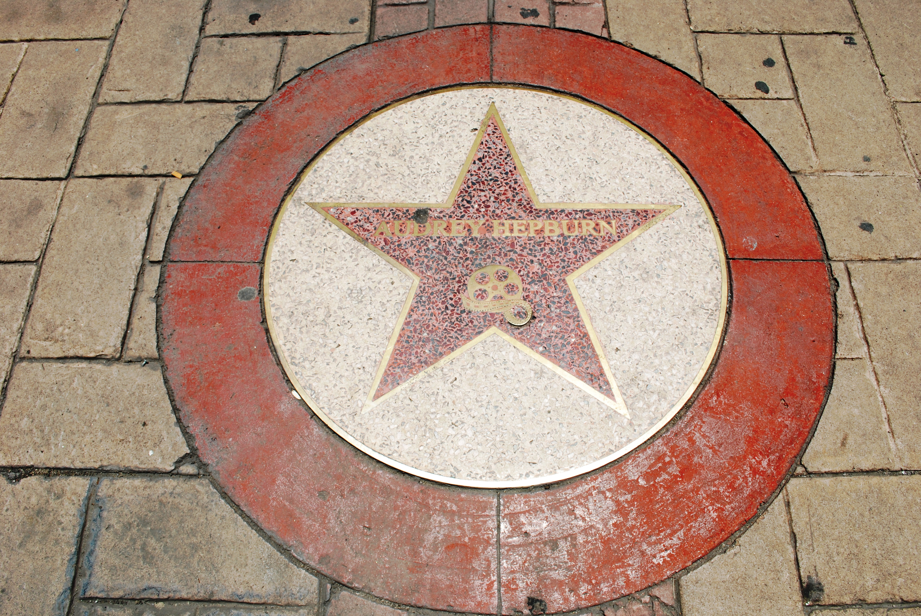 Audrey Hepburn's star on the Paseo de las Estrellas on Paseo Constitución, Victoria de Durango, Mexico